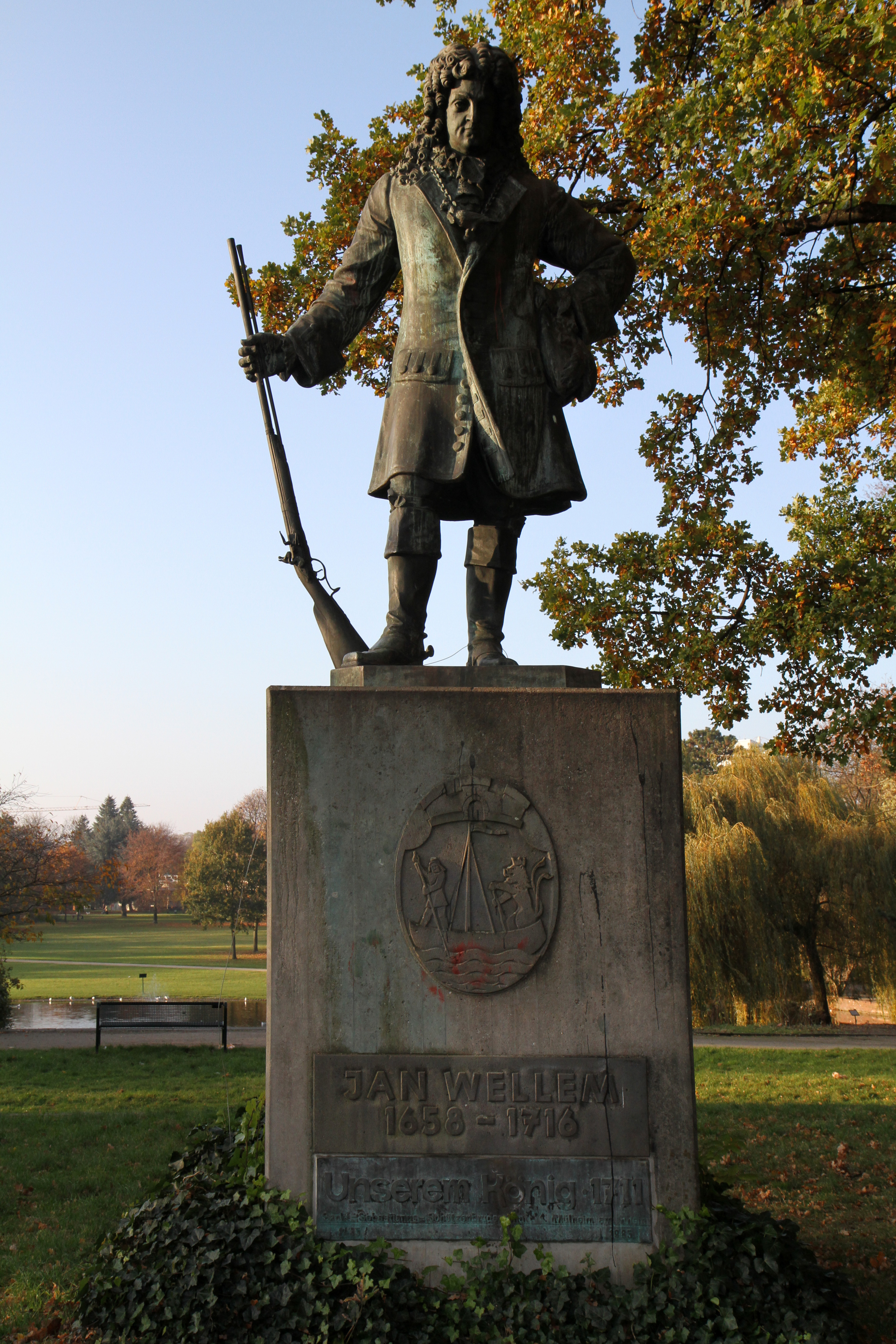 Cologne, monument "Jan-Wellem"